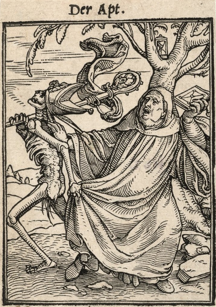 Abbott image from Totentanz (Dance of Death), ca. 1525, by Hans Holbein (1497-1543). Typ 515.38.456a, Houghton Library, Harvard University